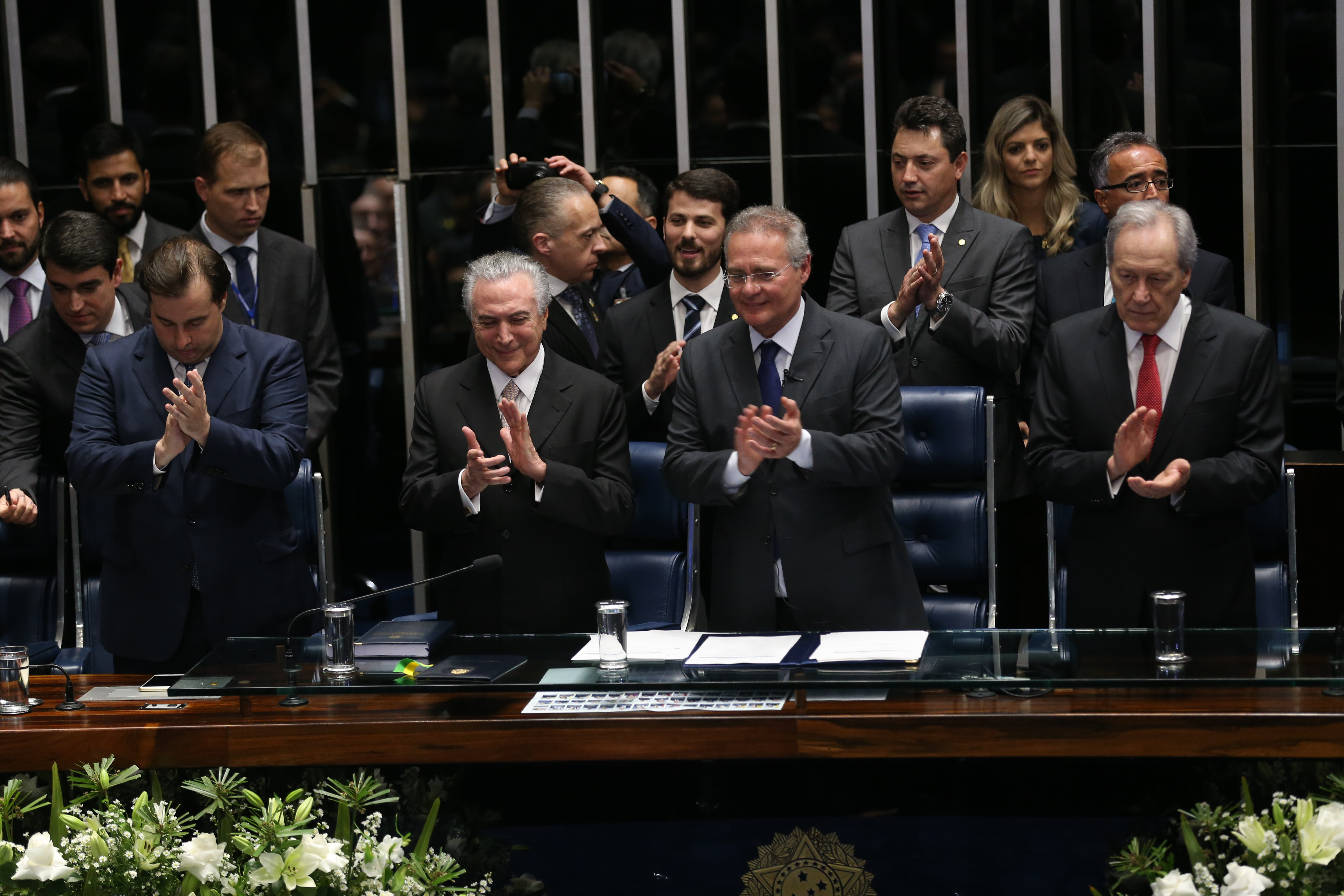 Brasília - Michel Temer recebe cumprimentos após posse como presidente da República em solenidade no Congresso Nacional (Fabio Rodrigues Pozzebom/Agência Brasil)